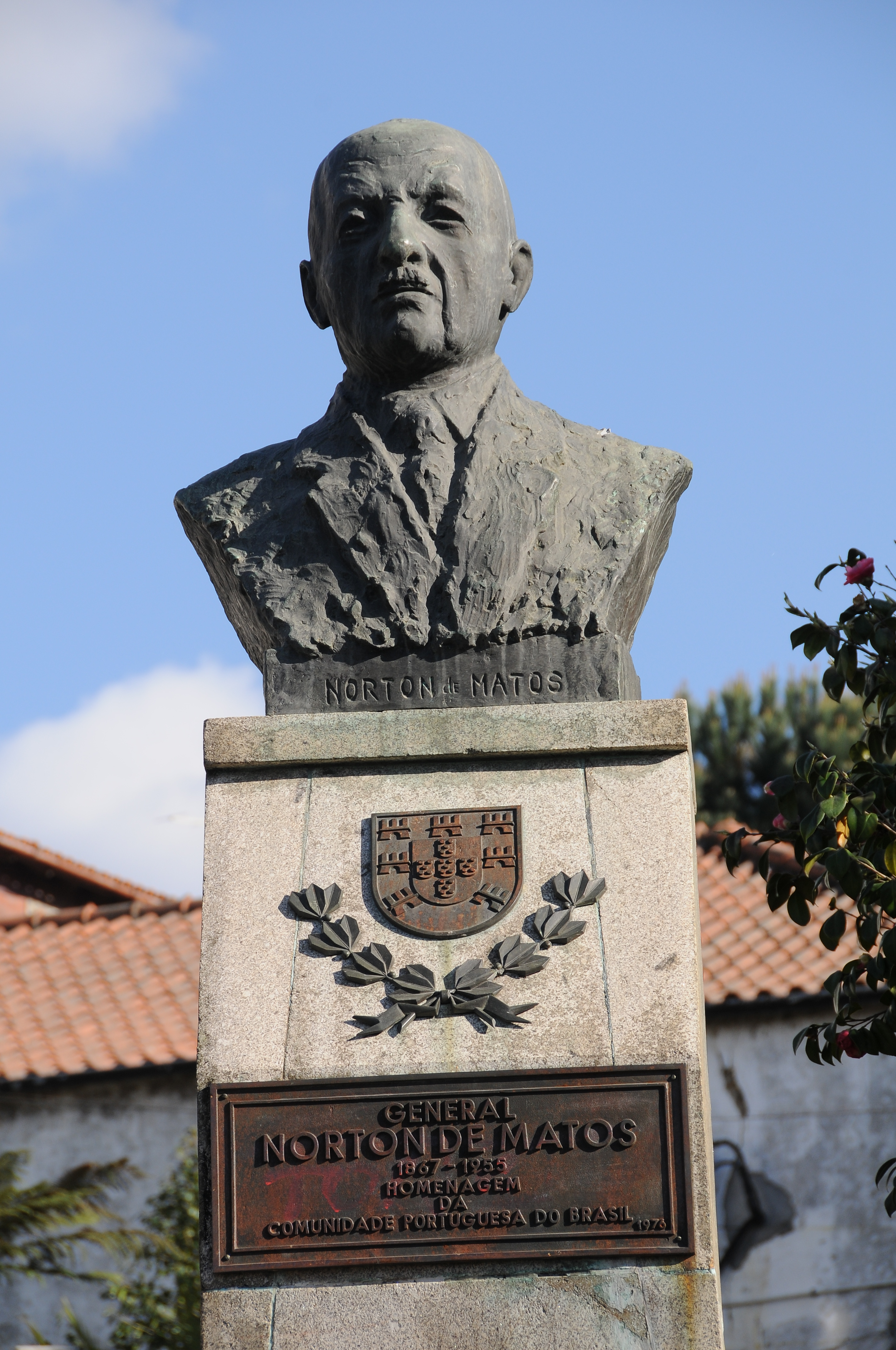 Norton de Matos Bust in Ponte de Lima, Portugal